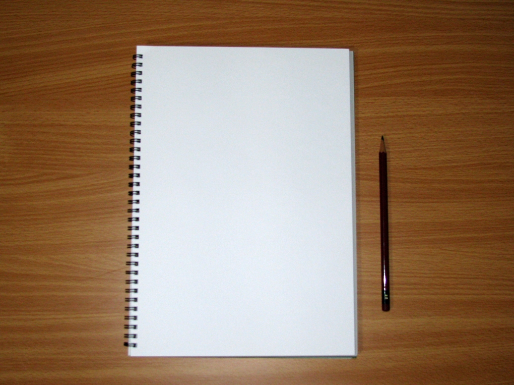 Sketch book A4